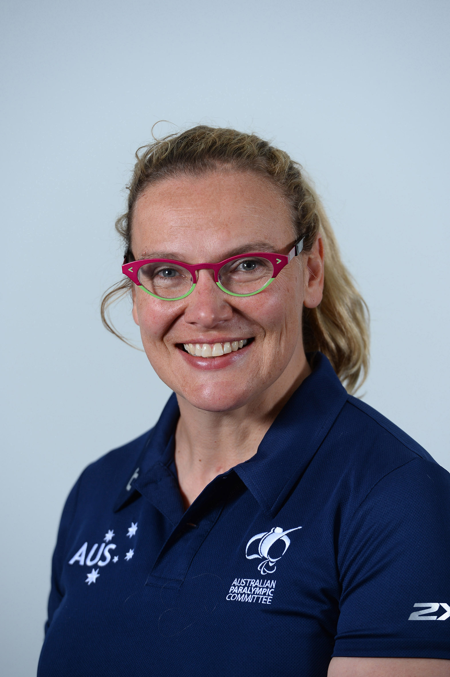 Portrait photograph of Louise Ellery taken at team processing session for shadow members of 2016 Australian Paralympic team